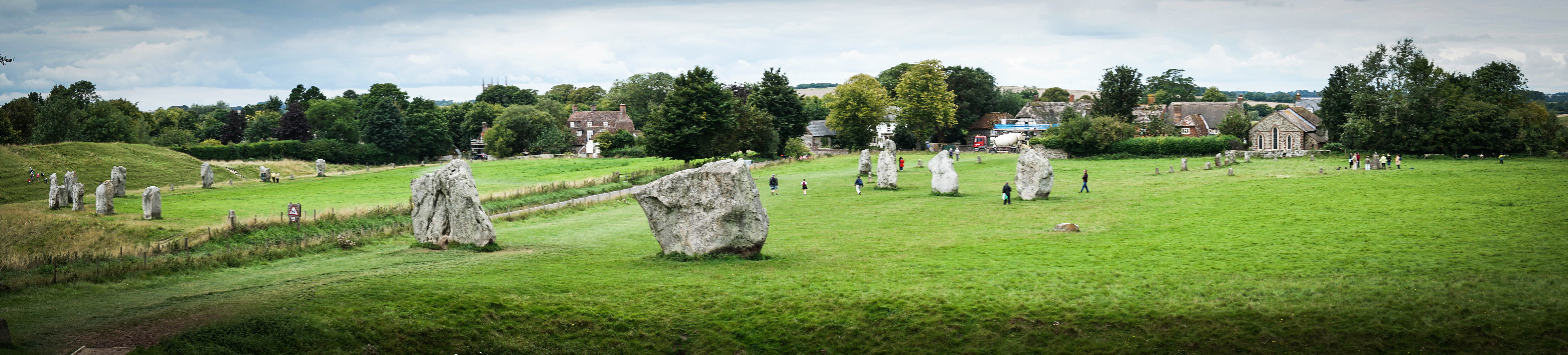 Avebury Stone Circles